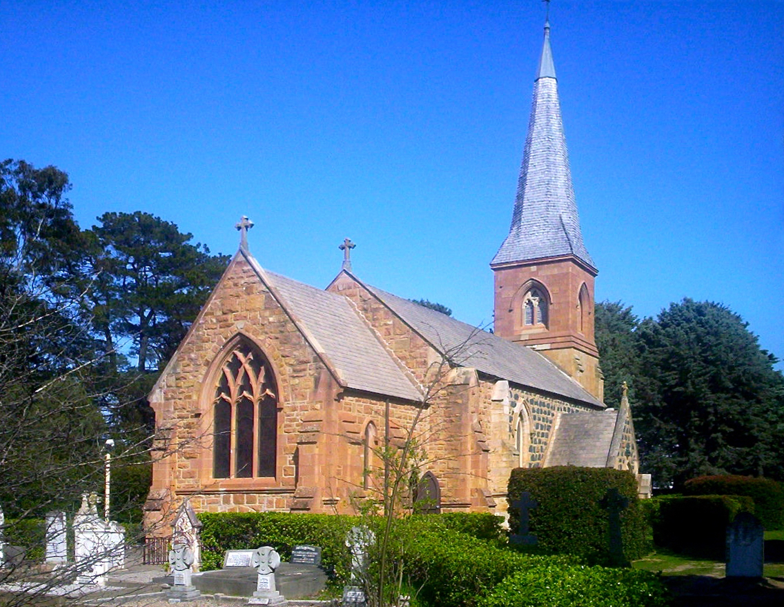 St Johns Church, the oldest church in Canberra